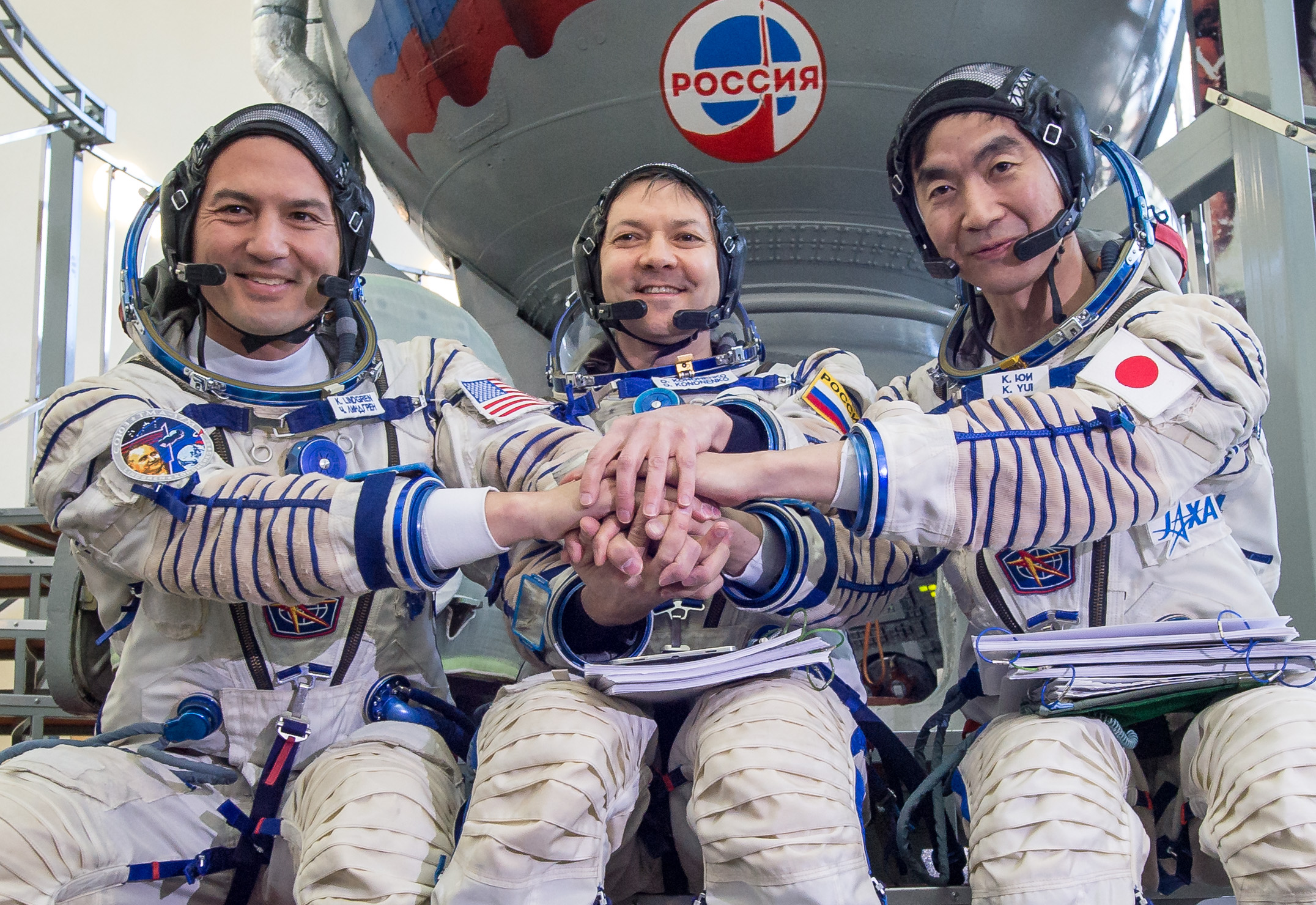 NASA astronaut Kjell Lindgren, left, Russian cosmonaut Oleg Kononenko, center, and Japan Aerospace Exploration Agency astronaut Kimiya Yui participate in the second day of qualification exams, Thursday, May 7, 2015 at the Gagarin Cosmonaut Training Center (GCTC) in Star City, Russia. The Expedition 44/45 trio is preparing for launch to the International Space Station in their Soyuz TMA-17M spacecraft from the Baikonur Cosmodrome in Kazakhstan.